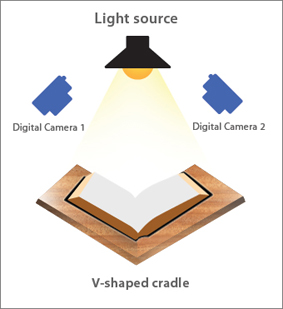 Sketch of a V-shaped book scanner